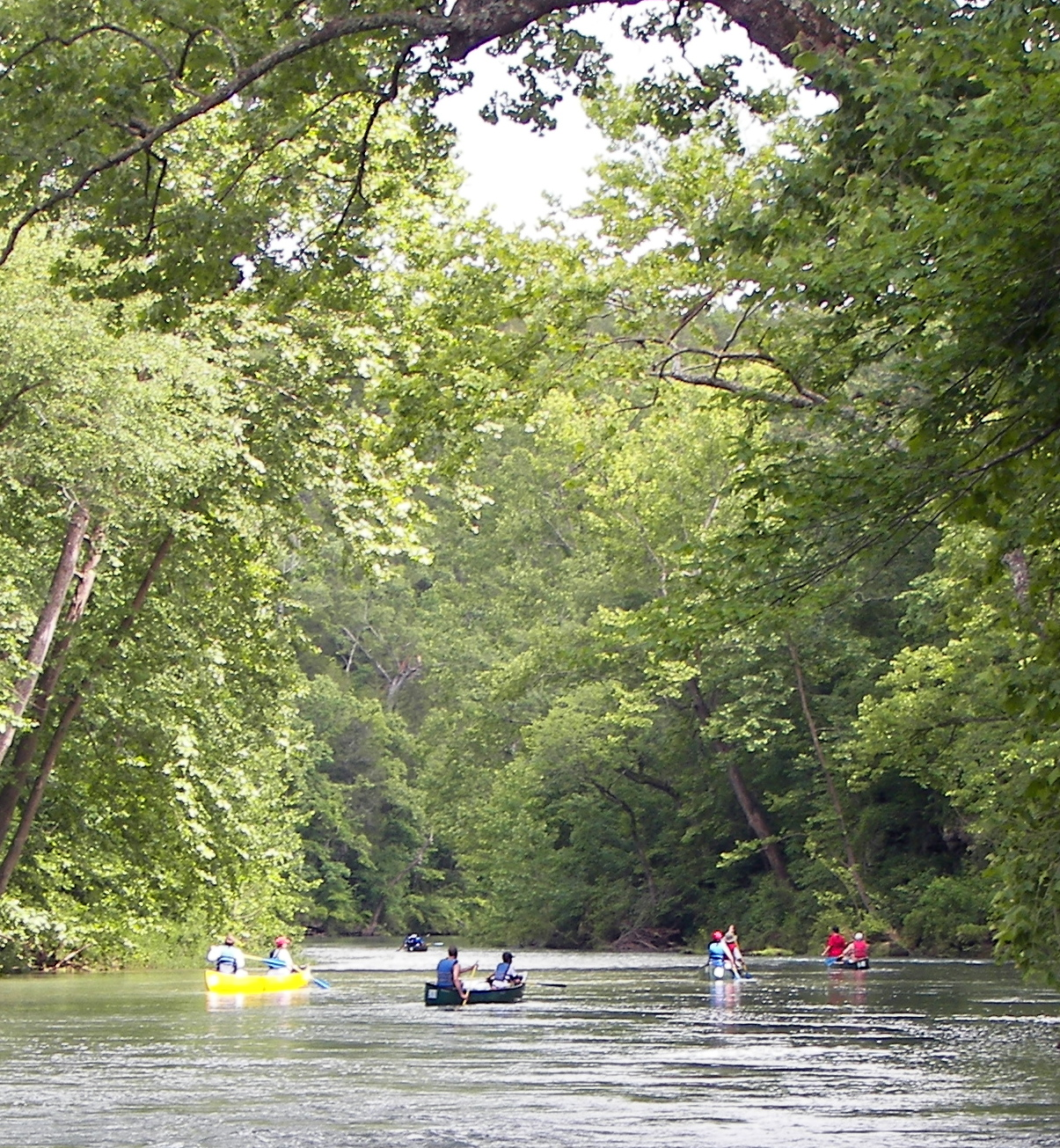 The upper Current River in the Ozarks of Shannon County in southern Missouri, between Welch Spring and Akers Ferry: This is part of the Ozark National Scenic Riverways, a national park created by Congress in 1964 to preserve the Current and Jacks Fork Rivers. The Current River contains the worlds largest concentration of first magnitude springs (flow greater than 100 ft3/s (3 m3/s)), making it a favorite for floating. Welch Spring contributes an average of 121 ft3/s (3.53/s) to the flow of the river, practically doubling its size and speeding its flow. The large amounts of cold spring water contribute to a unique environment in the river; though located in a subtropical climate, watercress and other cold water flora and fauna thrive here.